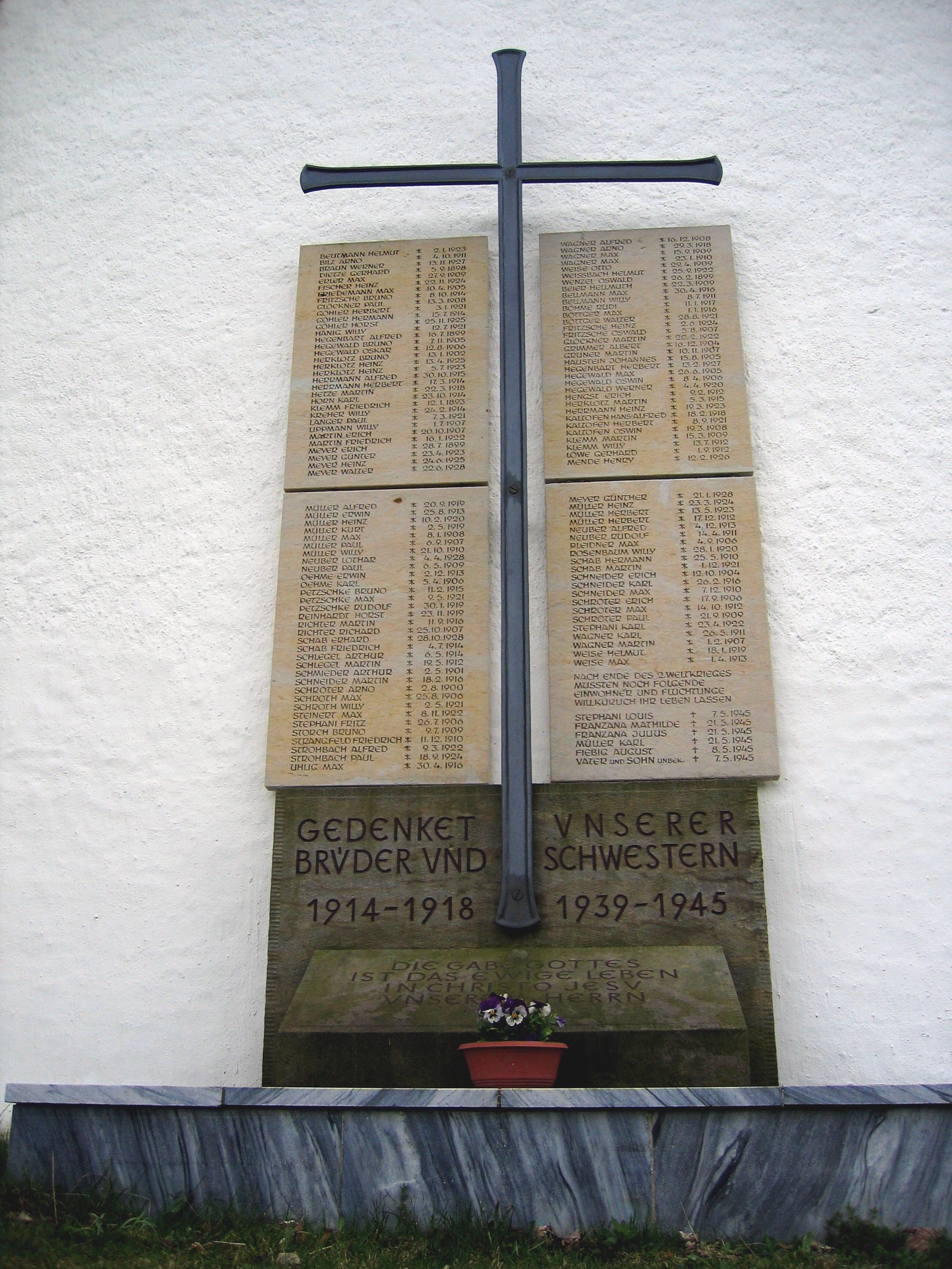 Cämmerswalde - Kirche - Gedenkstein für die Opfer beider Kriege.